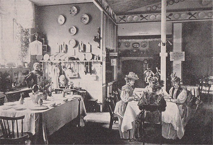 Photograph of the old and new kitchen exhibit at the 1895 Copenhagen Women's Exhibition